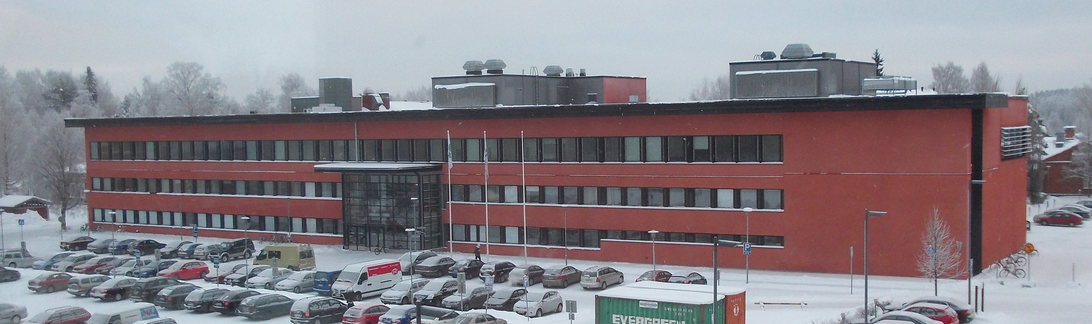 Mikkeli Campus of MAMK